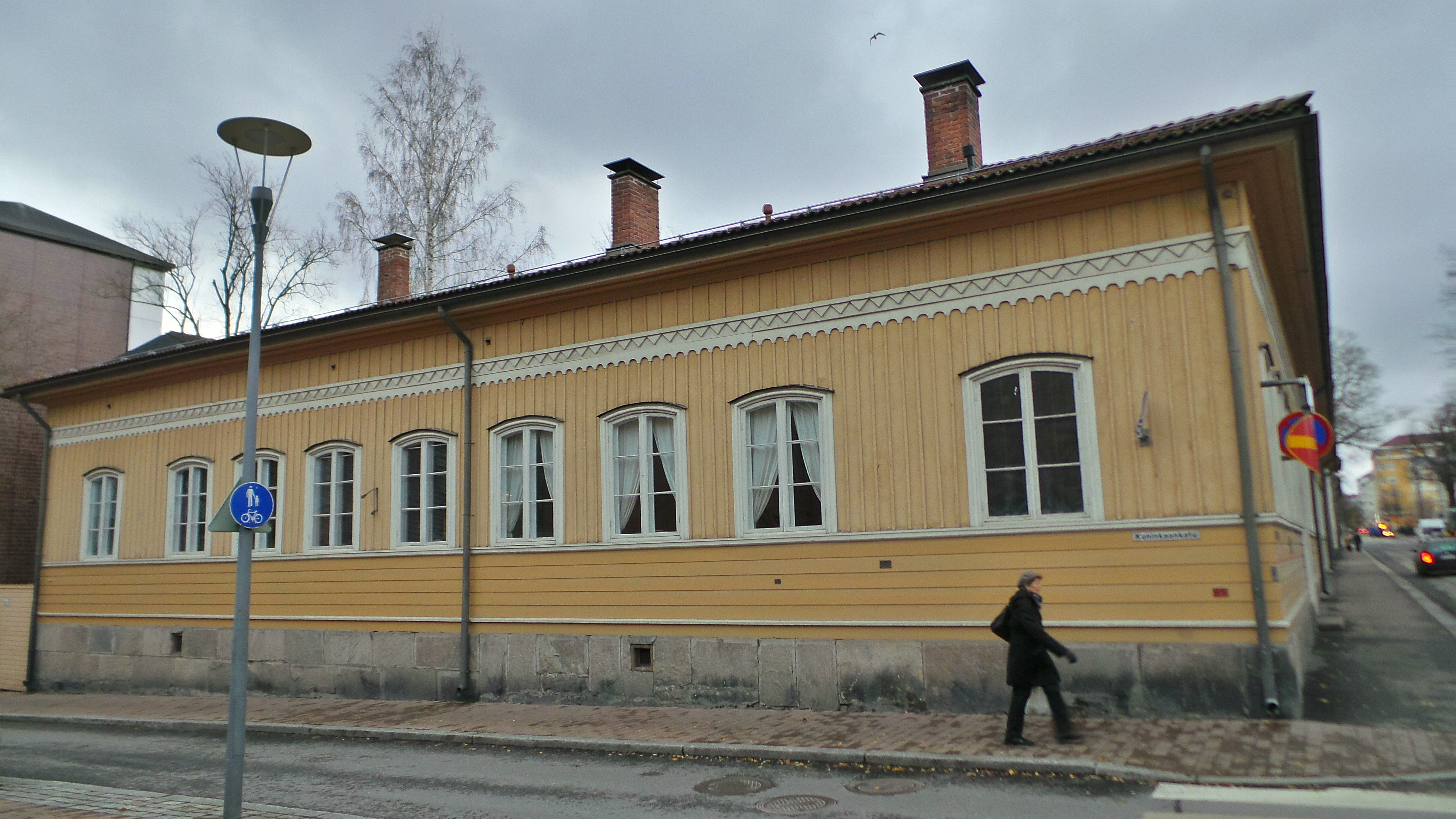 Finlayson